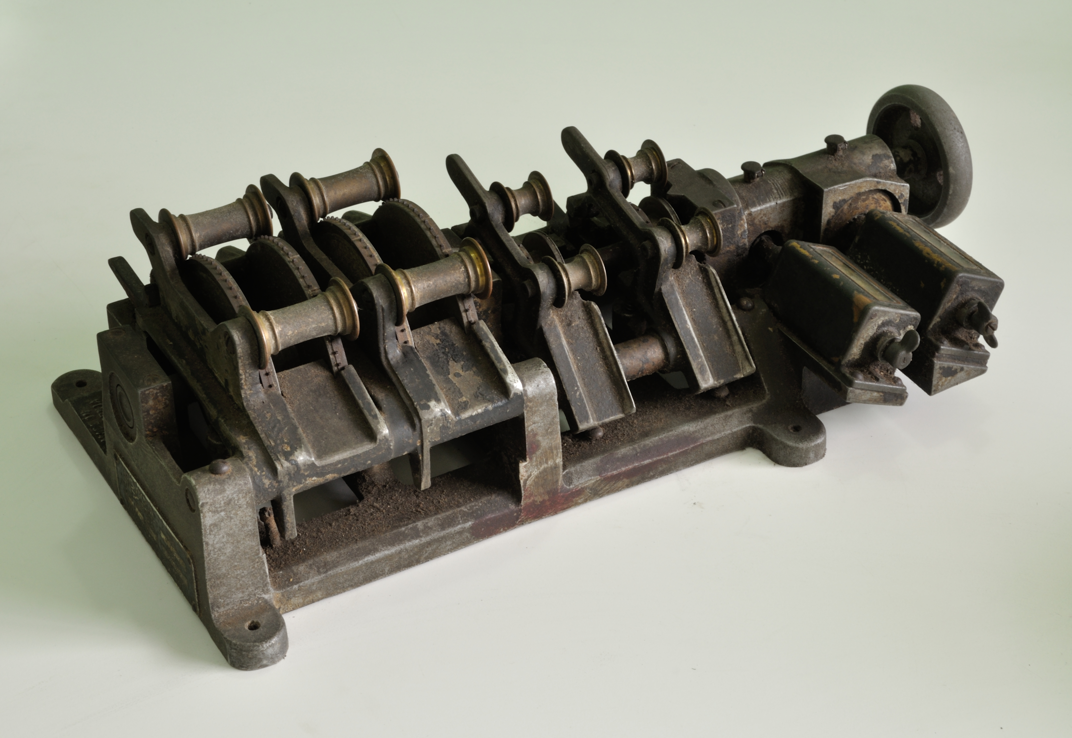 Cinematographic artifact that used in Kolkata.